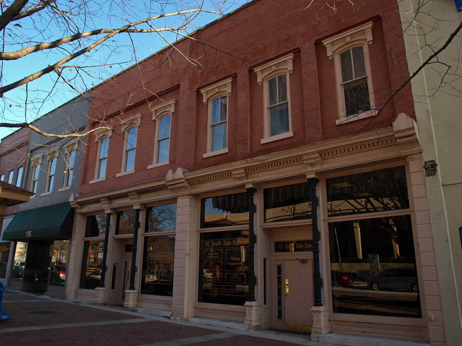 112-116 South Side Square in Huntsville, Alabama, listed on the National Register of Historic Places